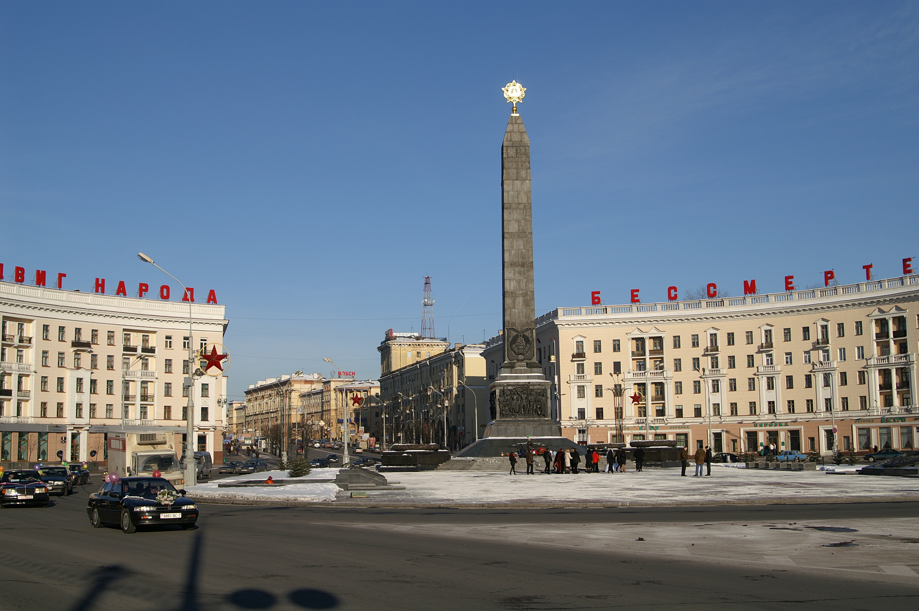 Victory square. Minsk, Belarus.